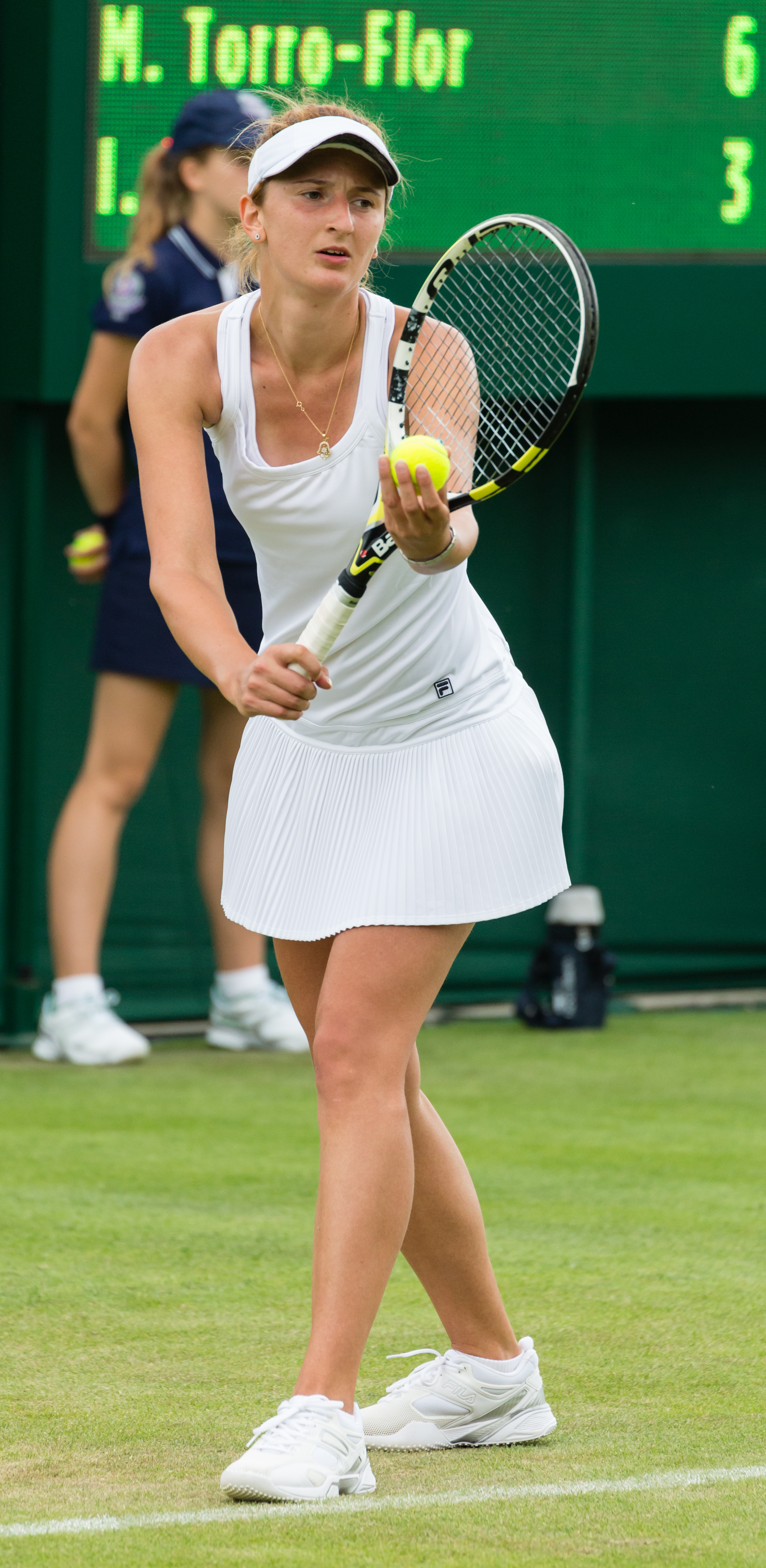 Irina-Camelia Begu in the first round of the 2013 Wimbledon Championships.